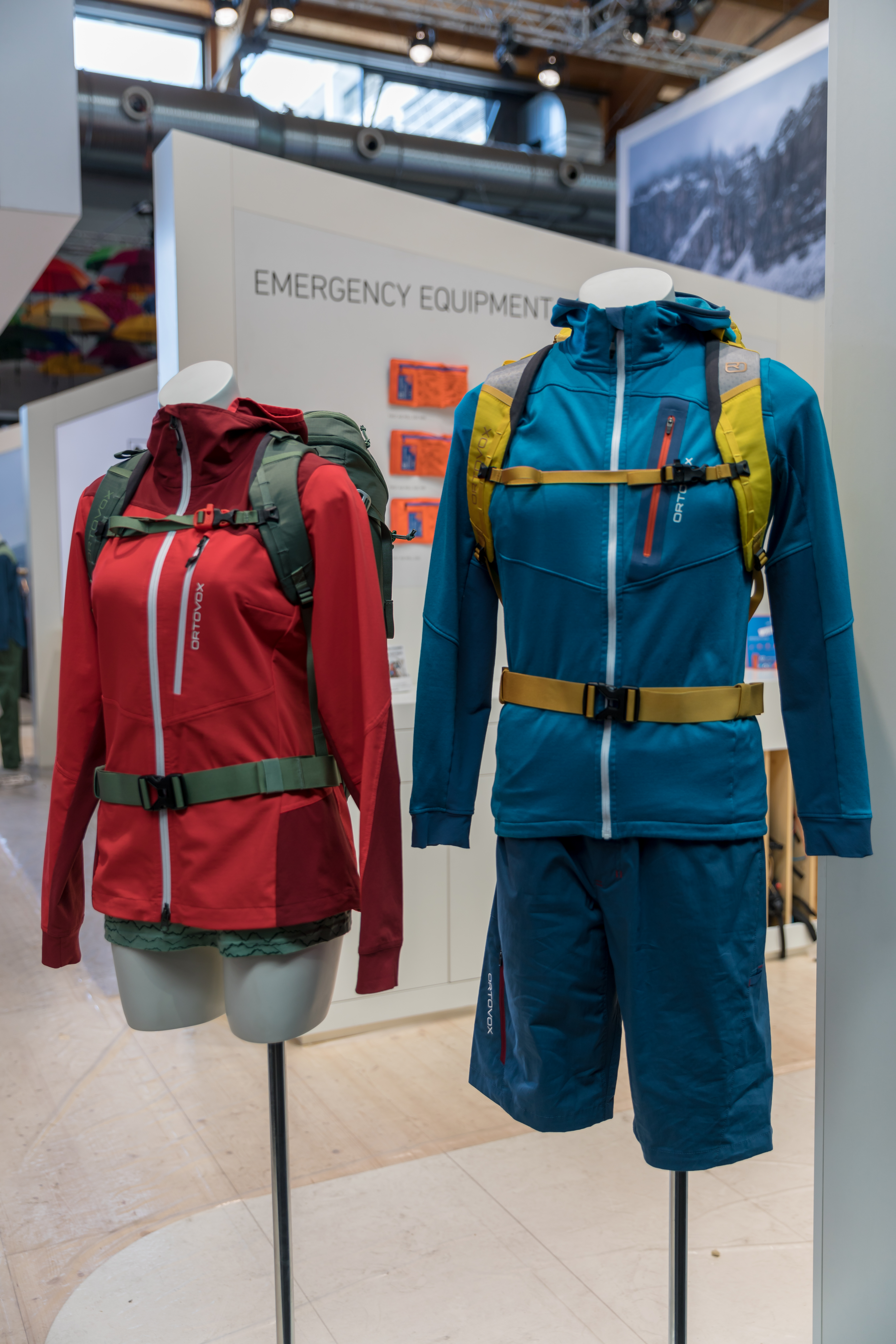 Press preview, OutDoor 2018